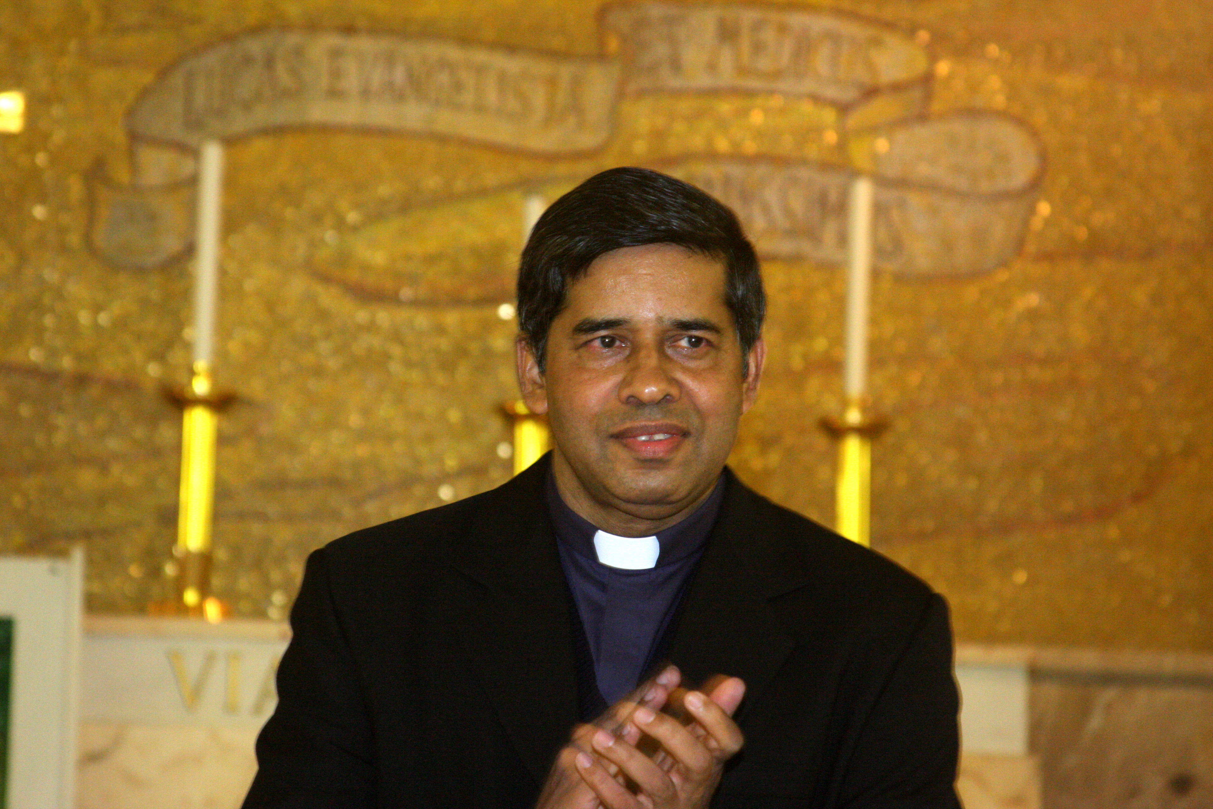 Father Jacob Nampudakam, a Pallottines rector general since 2010.